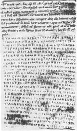 The Charter of Ban Kulin was a trade agreement between the Banate of Bosnia and the Republic of Ragusa that effectively regulated Ragusan trade rights in medieval Bosnia written on 29 August 1189. It is one of the oldest written state documents in the Balkans.